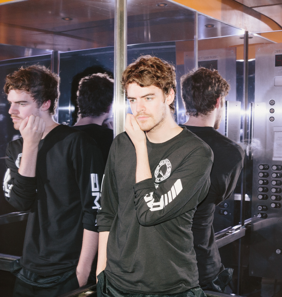 ryan hemsworth press shot 2014